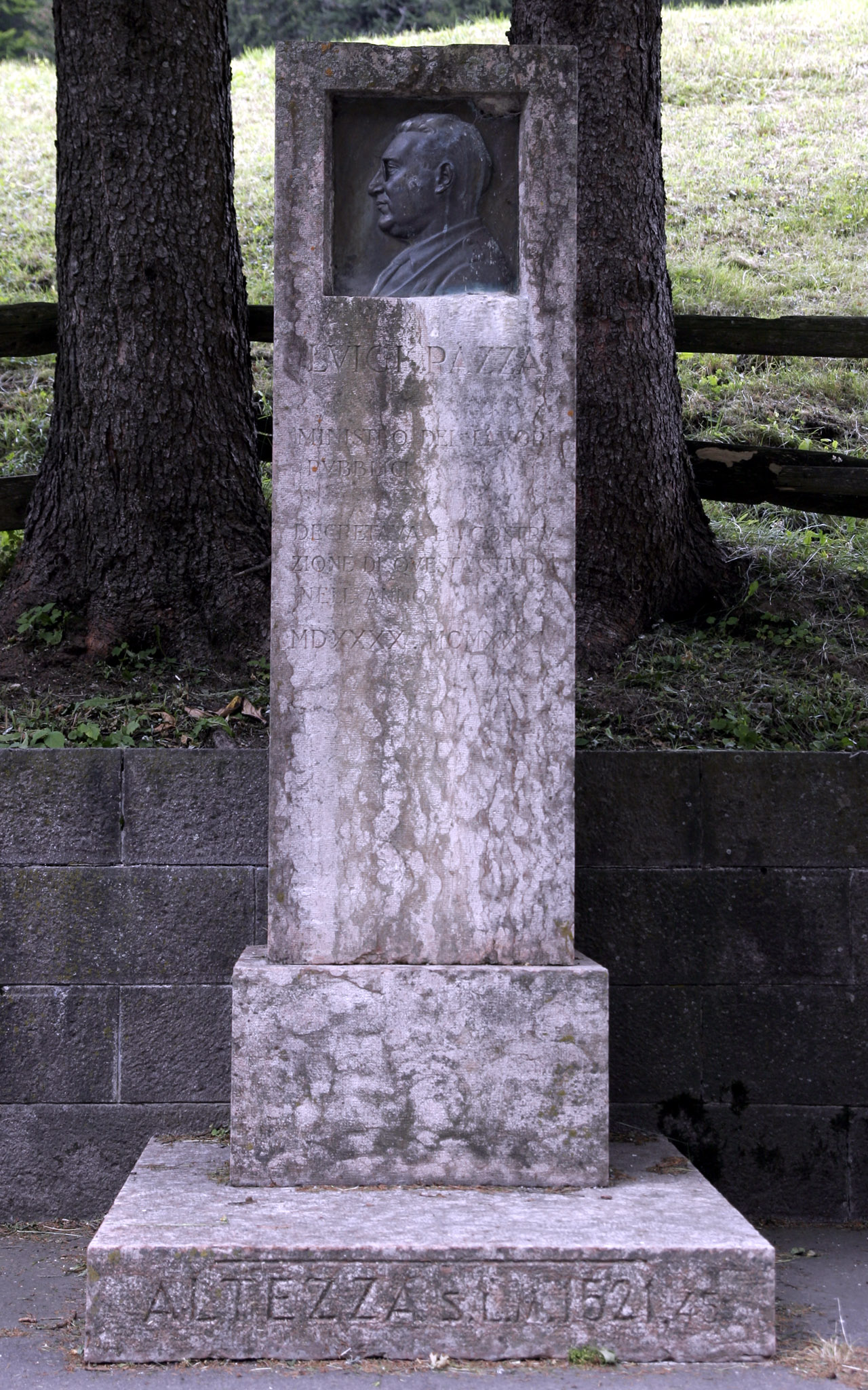 Statue at the top of the Gampen Pass